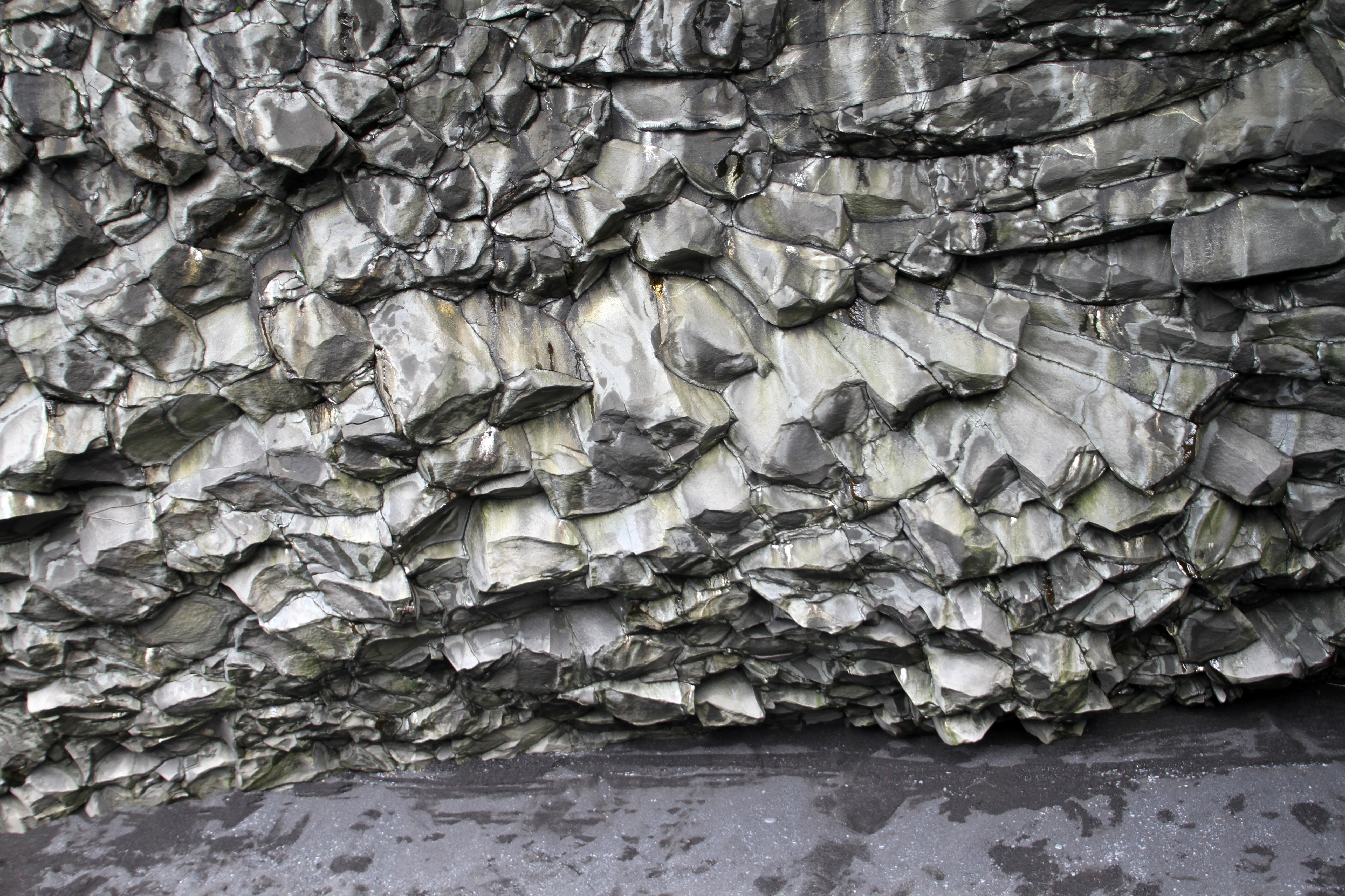 Columnar basalts at Reynisfjara